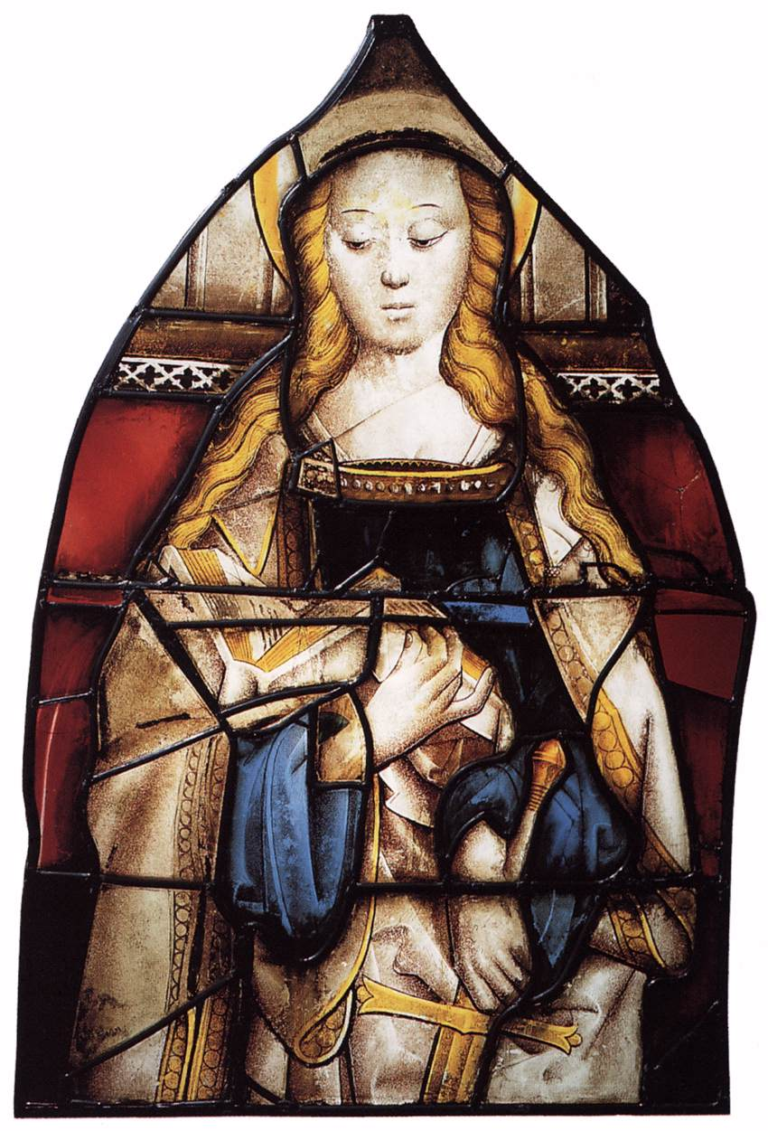 St Catherine. Leaded glass. 92 × 58 cm. Amsterdam, Rijksmuseum Amsterdam, Stained Glass Windows collection (inv.no. BK-NM-10222).